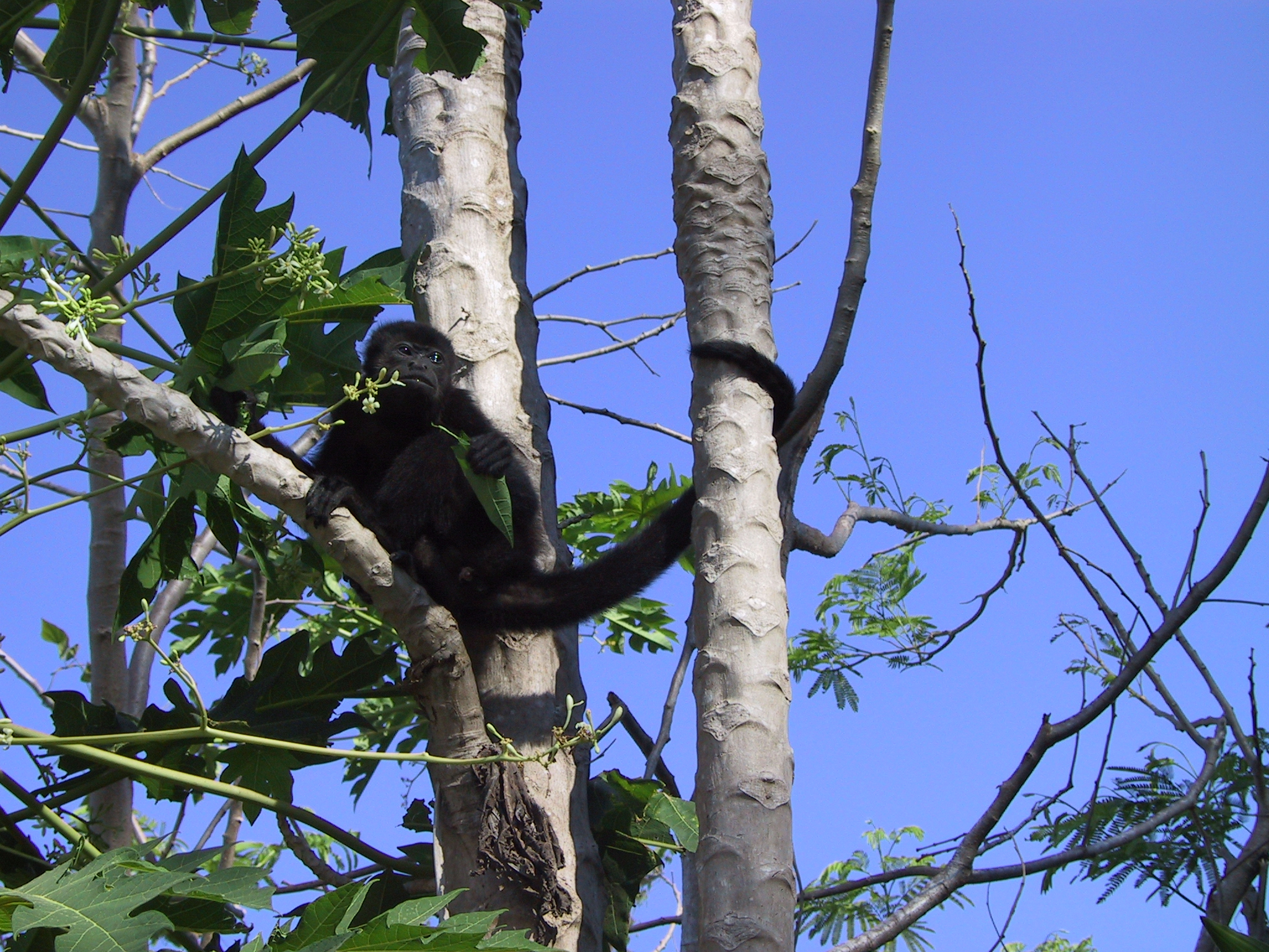 Alouatta pigra (Howler monkey), eating leaves of Carica papaya (Costa Rica, peninsula Nicoya, Cabo-Blanco)